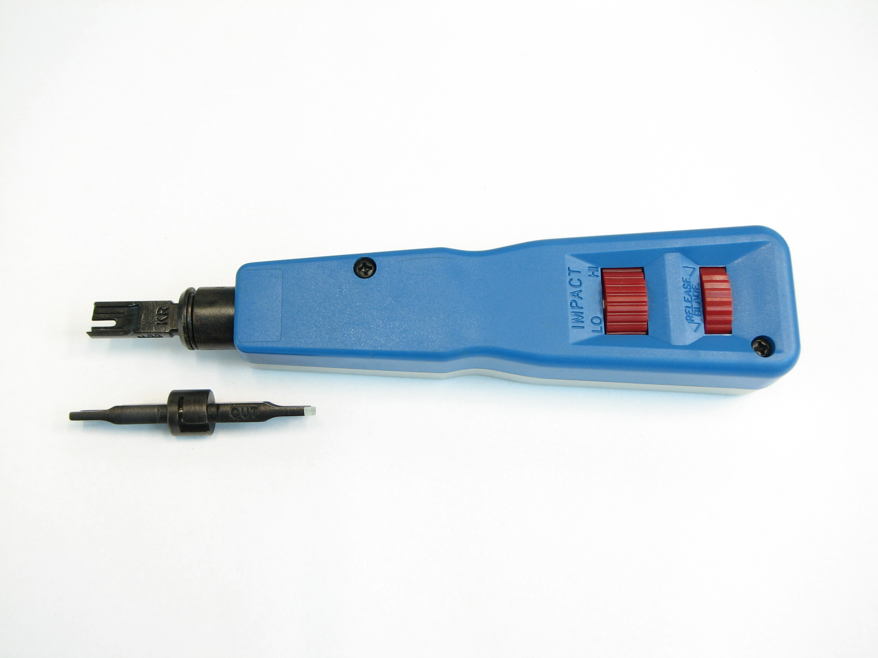 Punchdown (or punch down) tool, with Krone (fitted) and 110 block heads.